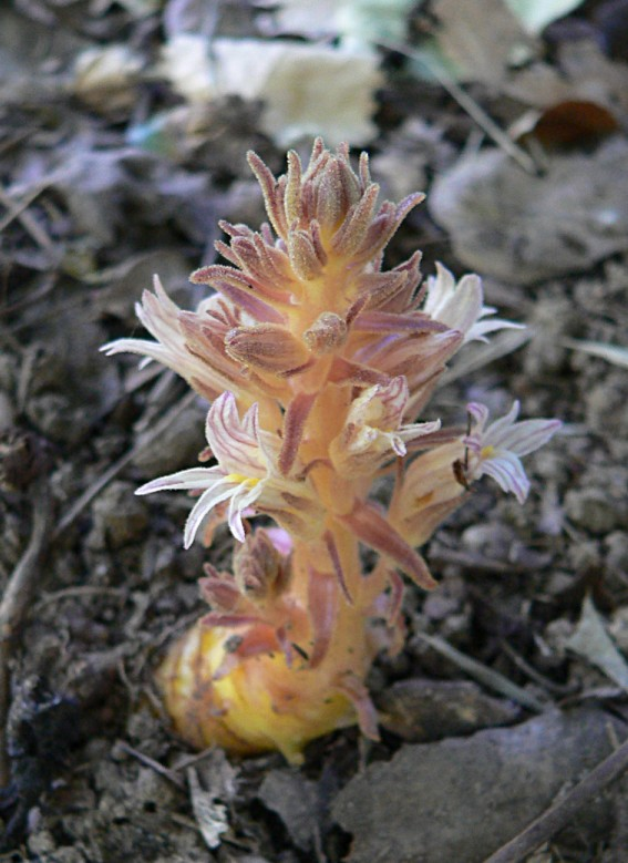 California broomrape found in Lodi, California